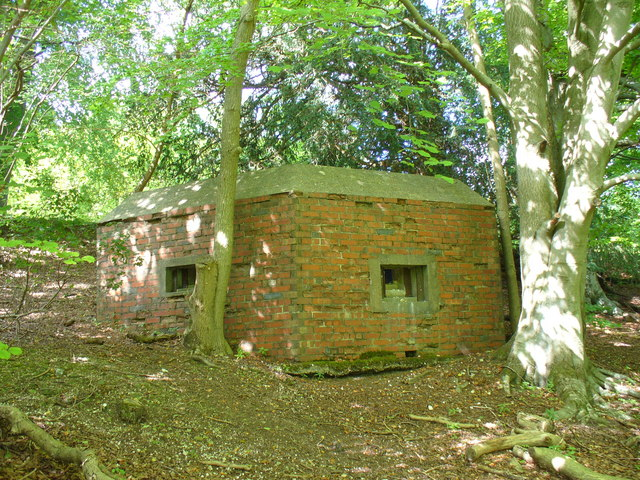 Pill Box by North Downs Way Another relic built as part of London's final line of defence in WW2. Deciduous trees now overshadow the brick structure.